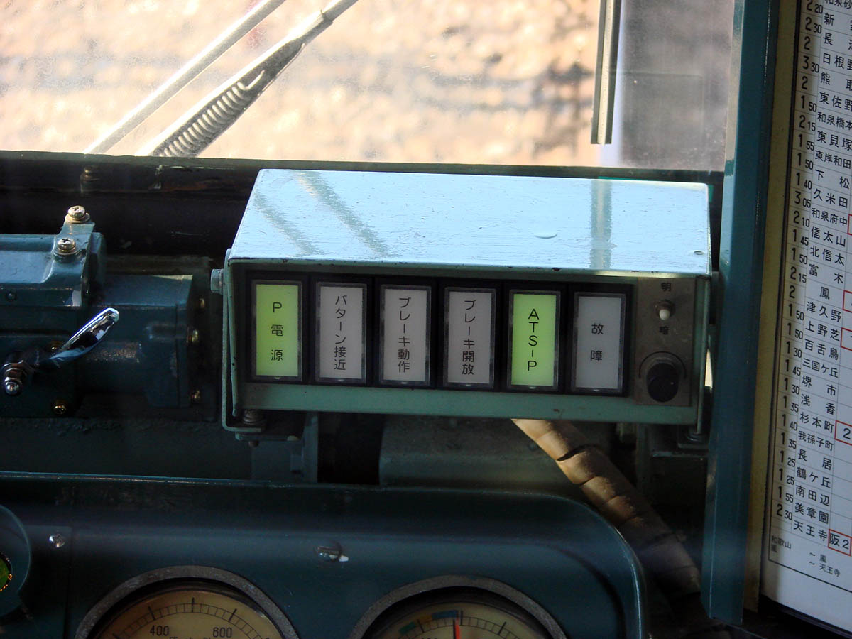 ATS-P indicator on a JR West rolling stock